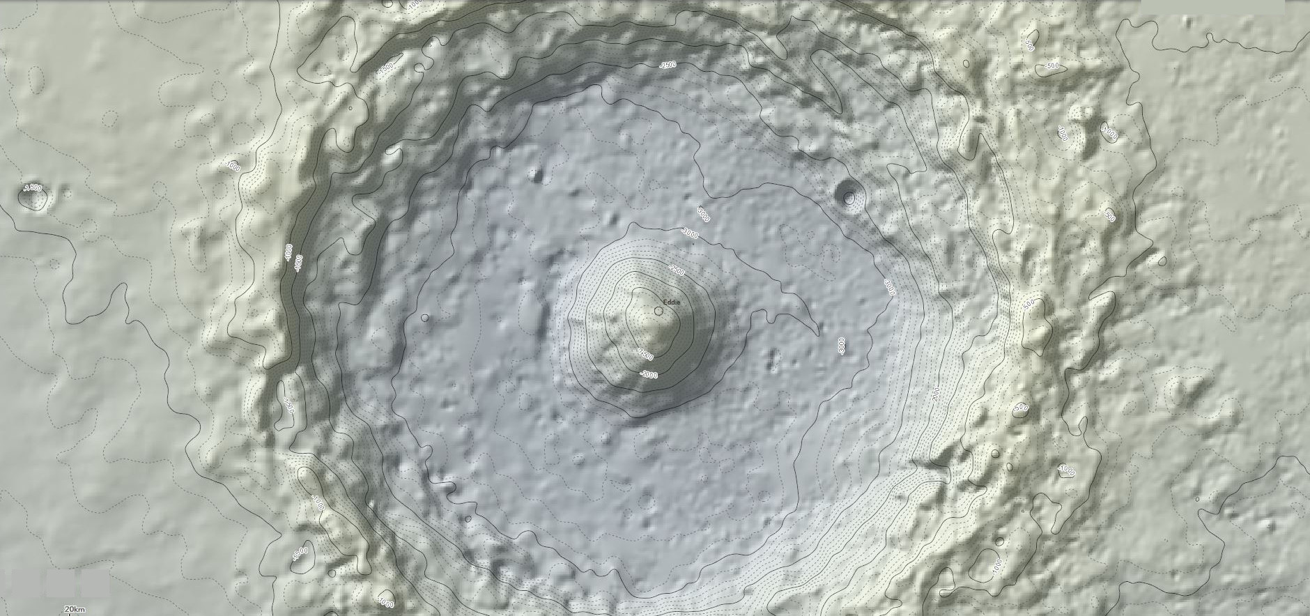 A topographic map created using Mars Orbiter Laser Altimeter (MOLA) data. This map show the relative elevation in 100 meter elevation contour lines (dashed) and 500 meter elevation contour lines (bold) with a total elevation uncertainty of +/- 6 meters.